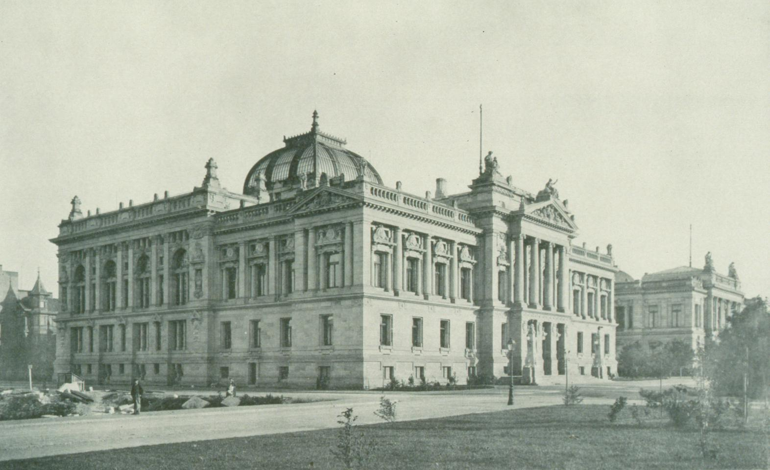 Photograph of the National and Academic Library of Strasburg in 1895